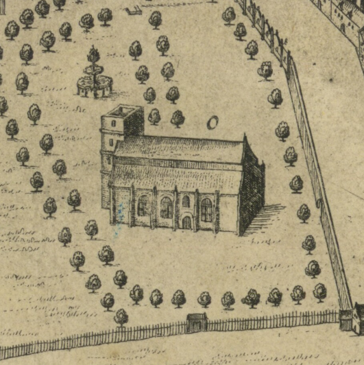 A detail of James Gordon of Rothiemay's 1647 map of Edinburgh, showing Greyfriars Kirk. This is the only depiction of the church before an explosion of 1718 destroyed the west tower. The church was subsequently restored and extended.